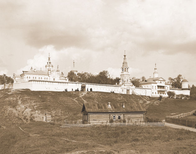 Zilantov monastery in Kazan in 19 century